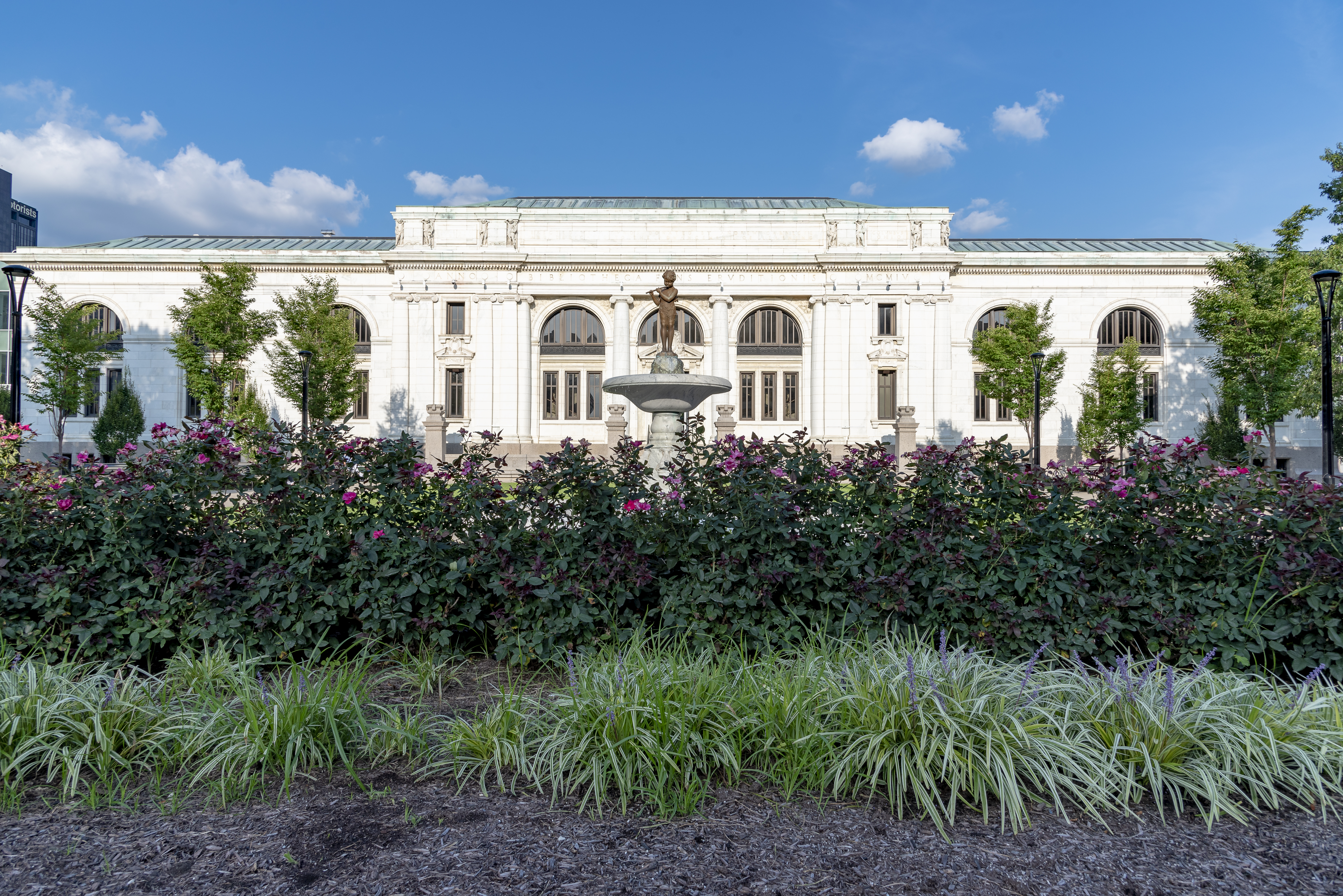 The front entrance of the Columbus Metropolitan Library with the fountain in Carnegie plaza in the forground.